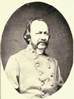 Brigadier General Thomas Neville Waul (Confederate States of America). From illustration between pages 252 and 253 of the following book: Evans, Clement Anselm (ed.). Confederate military history. A library of Confederate States history, in twelve volumes, written by distinguished men of the South, and edited by Gen. Clement A. Evans of Georgia. Vol. XI. Atlanta, Ga.: Confederate Publishing Company, 1899.